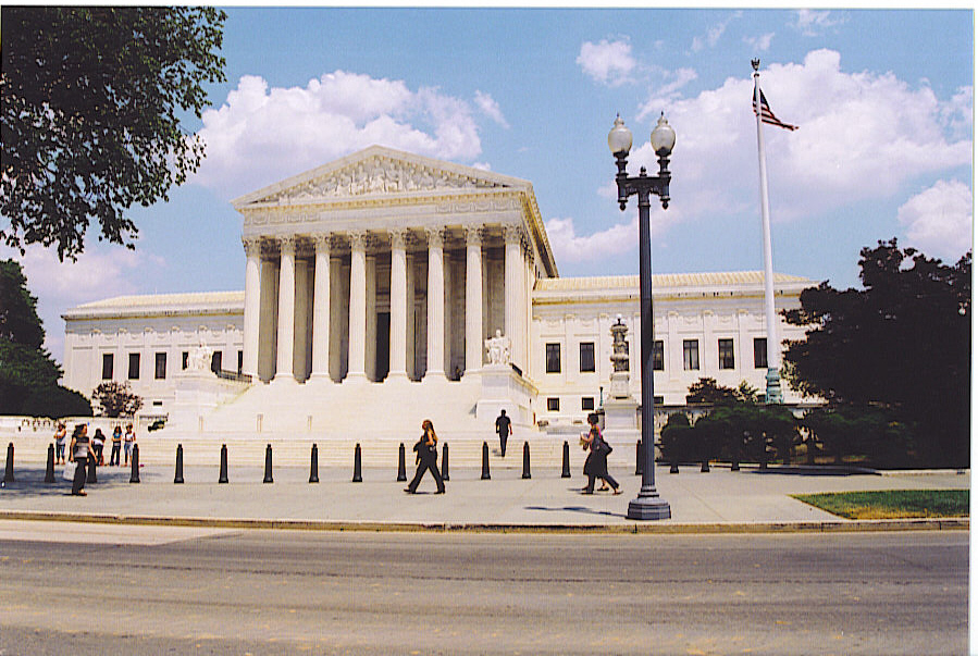 United States Supreme Court building, Washington, D.C., United States